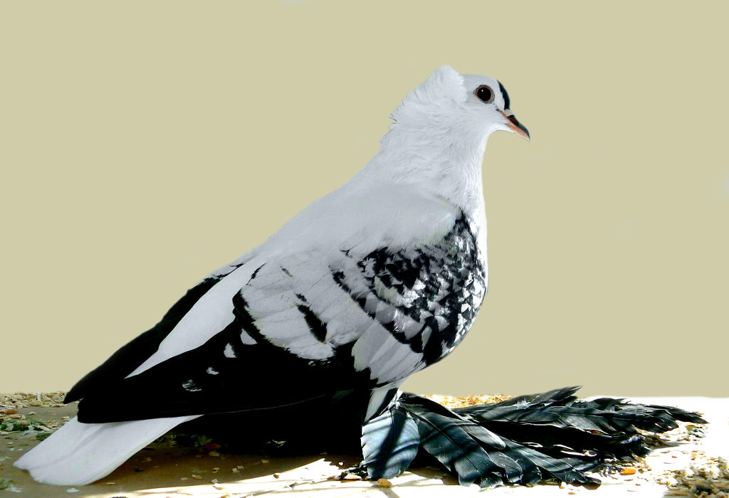 Bohemian Fairy Swallow (Black Tigered)